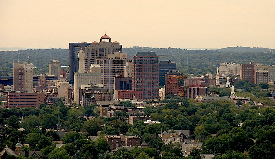 New Haven, Connecticut skyline from East Rock Cropped version of File:New_Haven_from_East_Rock.jpg